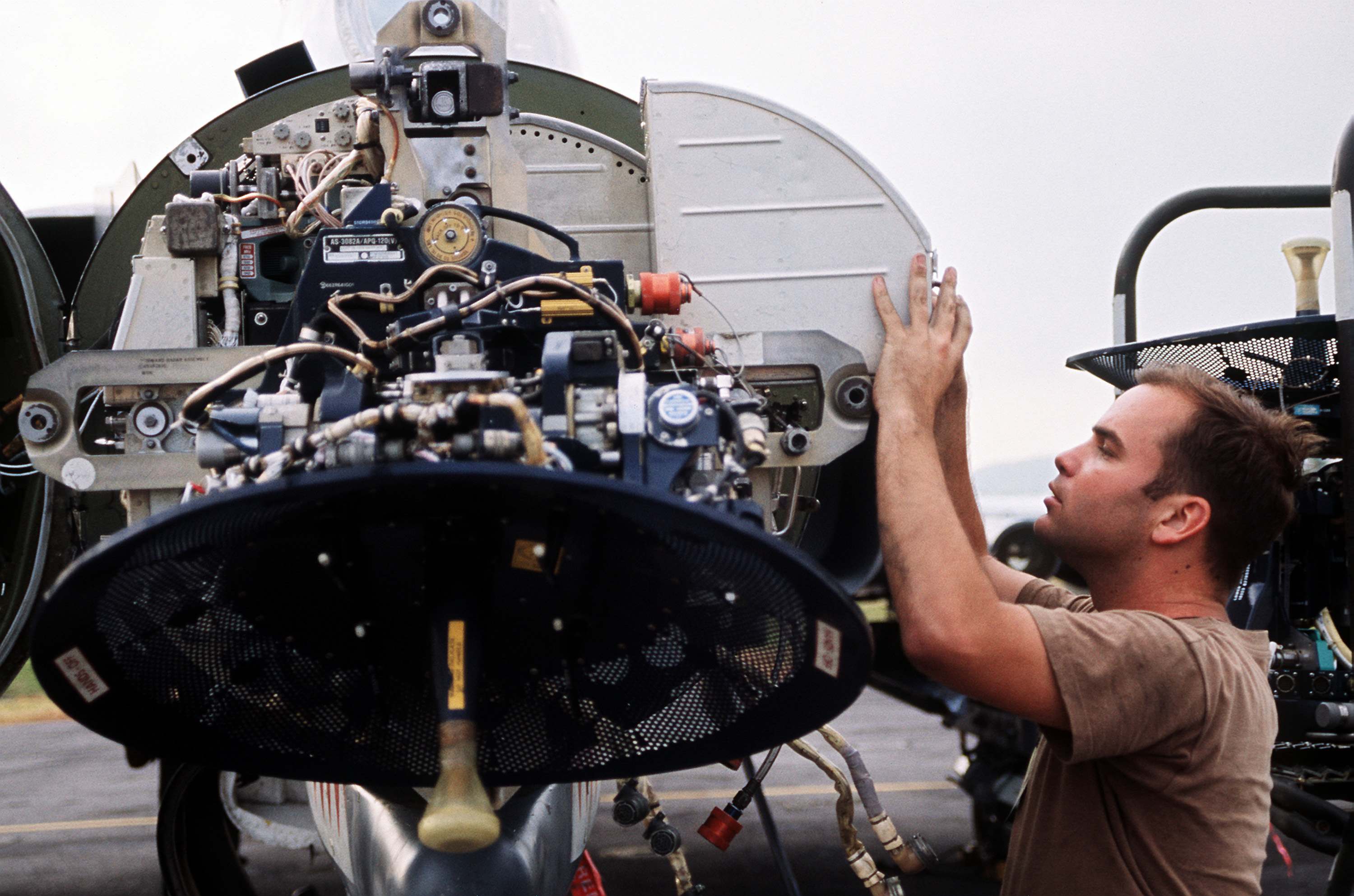 A technician works on the AN/APQ-120(V) fire control radar in the nose of a 3rd Tactical Fighter Wing F-4E Phantom II aircraft.